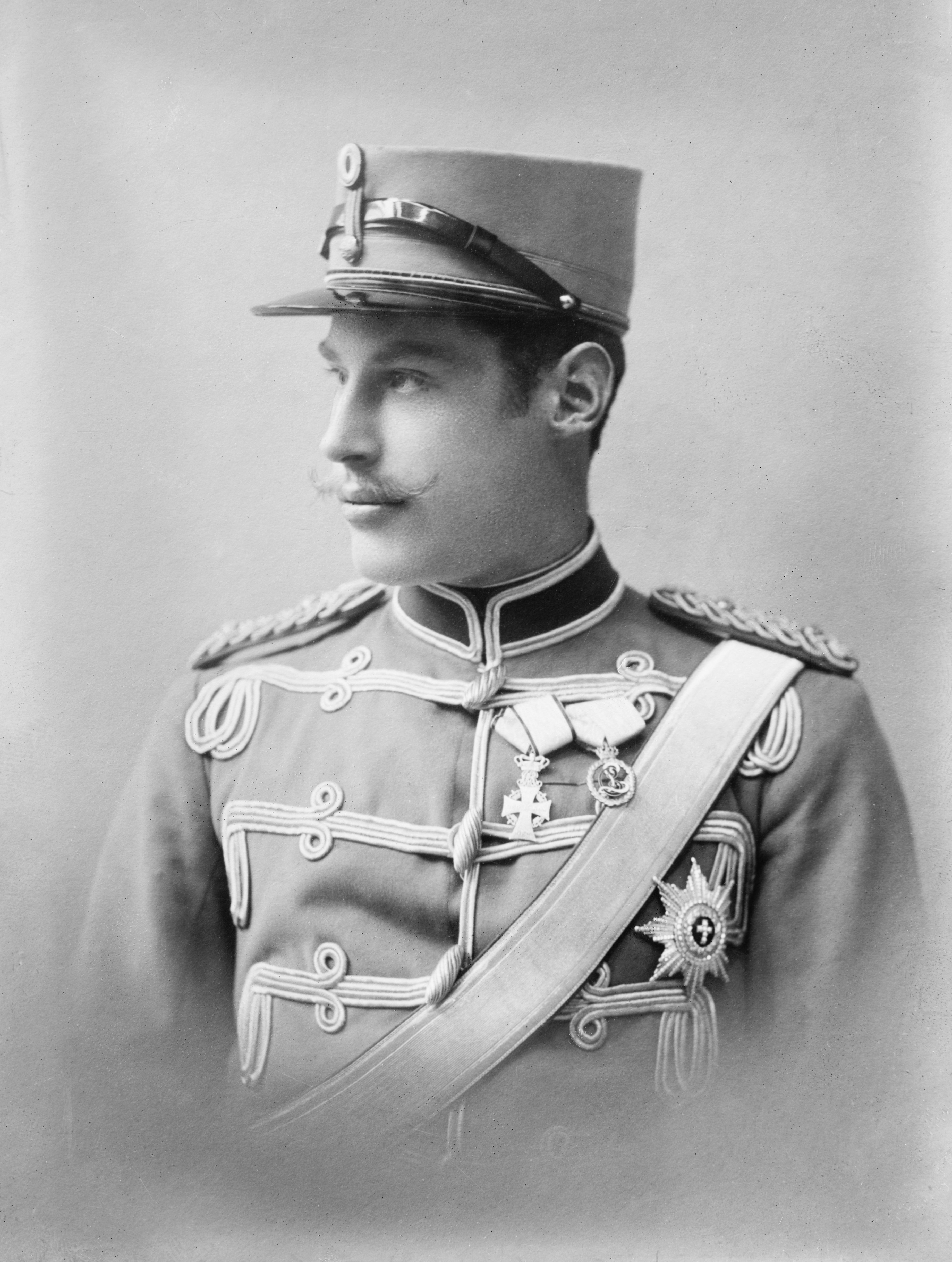 Prince Harald of Denmark in uniform.